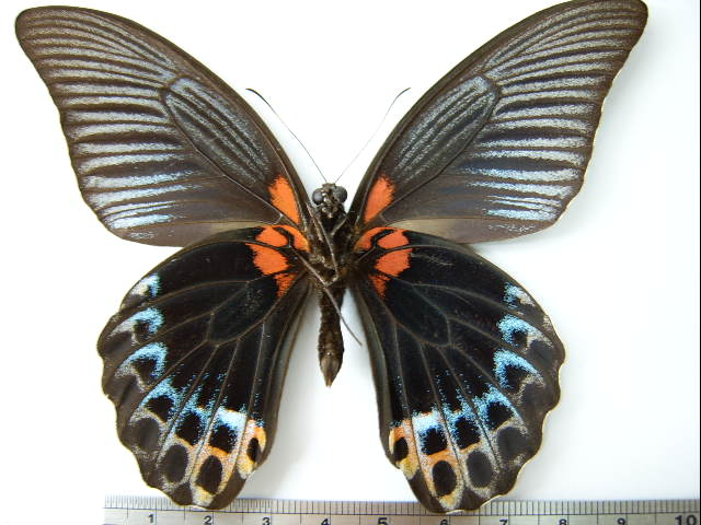 Kerry took this picture at his house on 16 July 2005 Scientific name: Papilio memnon heronus ♂ (belly) Date of collection: 31 V 1997 Place of collection: Taipei city, Taiwan